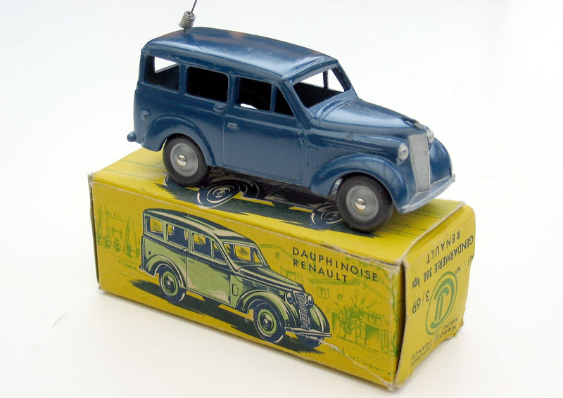 Renault Dauphinoise by CIJ - 1960 Personal picture